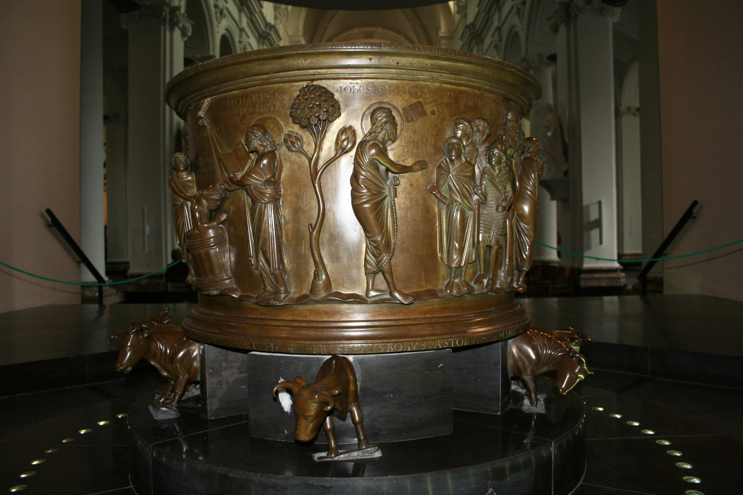 Liège(Belgium), Baptismal font of Rainer of Huy (first part of the XIIth century) - Metal worker: Rainer of Huy.